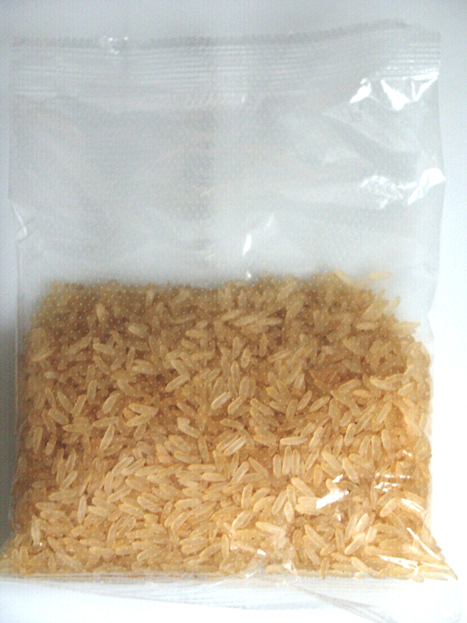 Boil-in-bag package with parboiled rice